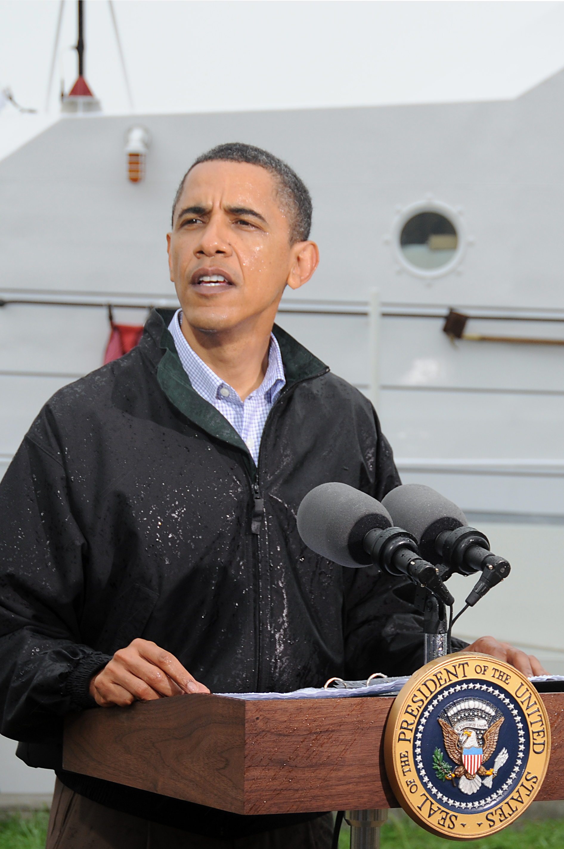 VENICE, La. - President Barack Obama addresses the media at Coast Guard Station Venice May 2, 2010. U.S. Coast Guard photo by Petty Officer 3rd Class Patrick Kelley.